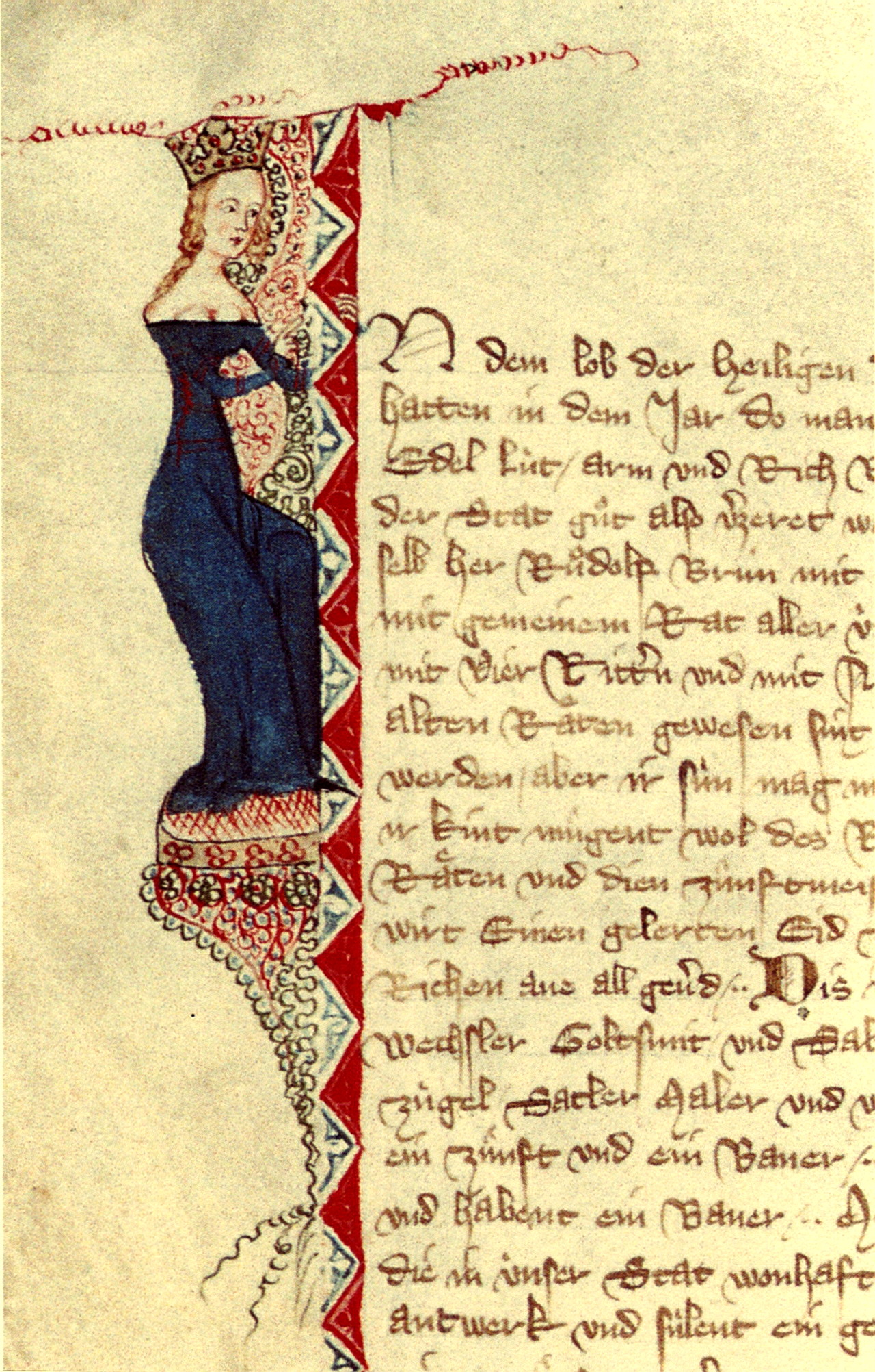 Zürich : '2. Geschworener Brief' (1373) confirmed by Beatrix von Wolhusen (?), Fraumünster Abbey